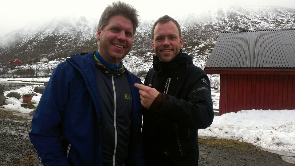 Marius Meisfjord Jøsevold (Norwegian) and Audun Lysbakken at Aalan farm in Vestvågøy